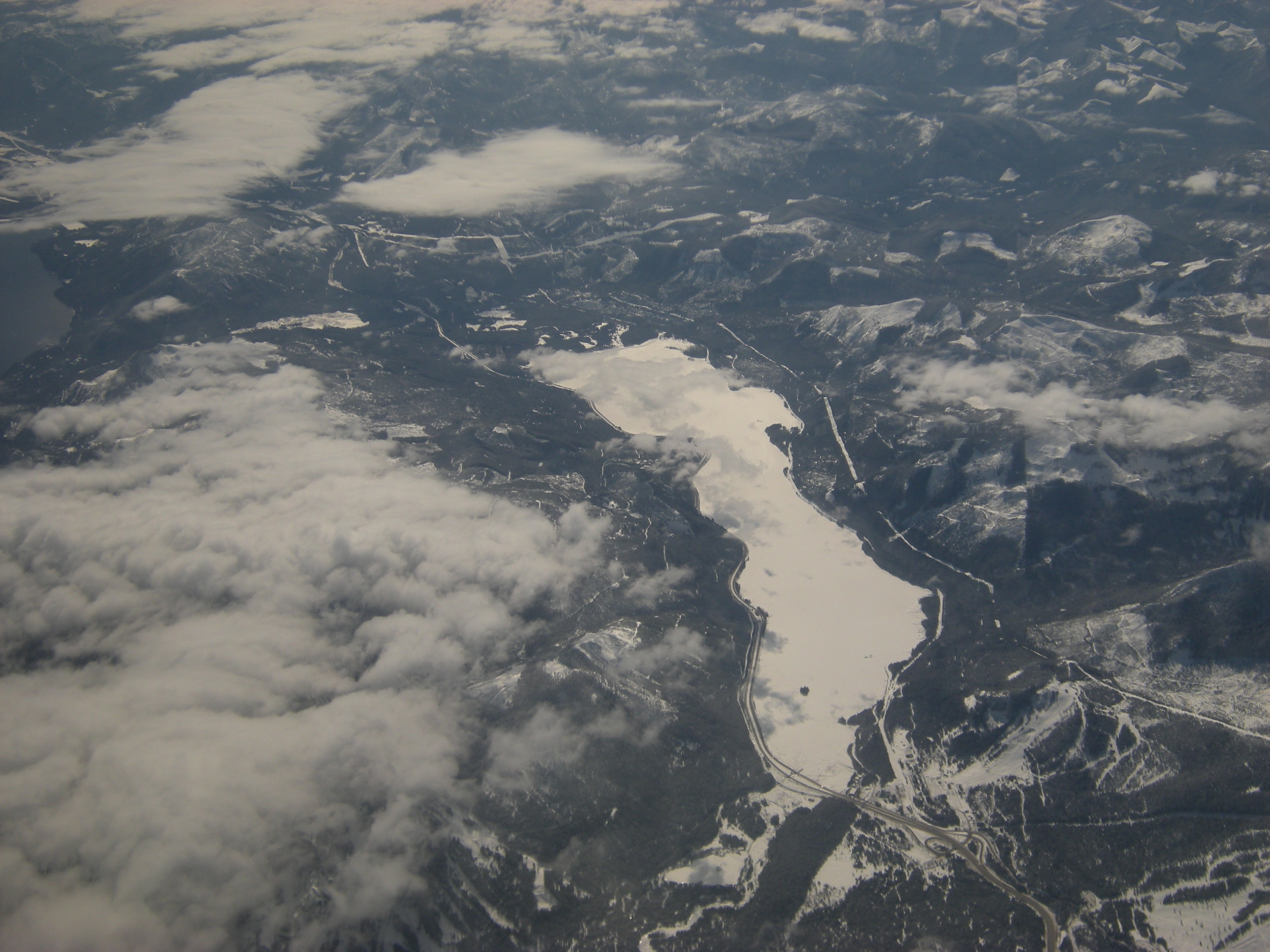 Aerial photo of Keechelus Lake, Washington, USA. View is roughly from the north. Hyak is near the bottom center of the photo. Interstate 90 runs roughly along the east (left) side of the lake.